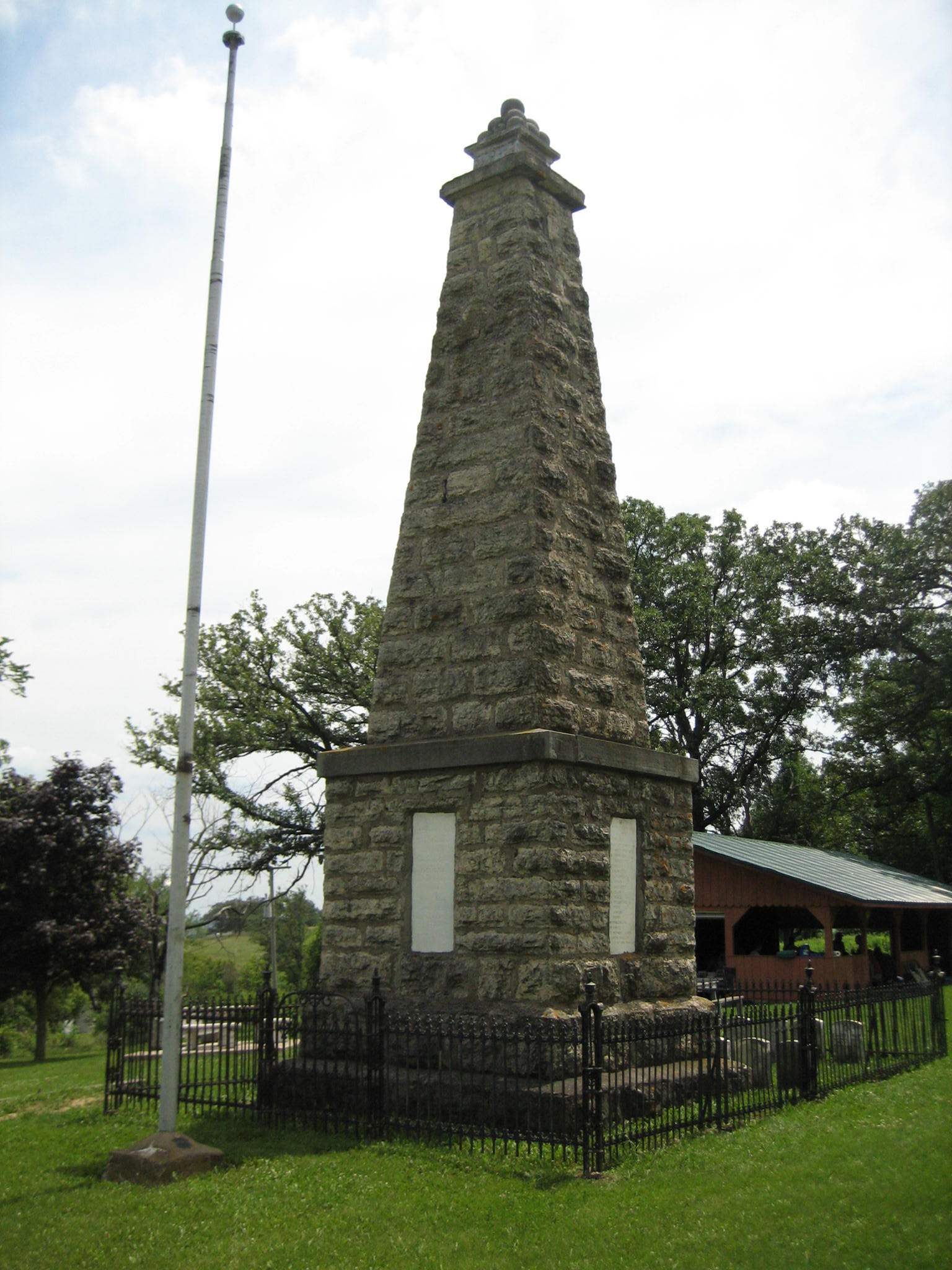 Kellogg's Grove, near Kent, Illinois, USA. Site of the Battle of Kellogg's Grove during the Black Hawk War. Site includes 56 acres and a monument and graves of those in the militia that died. U.S. National Register of Historic Places.